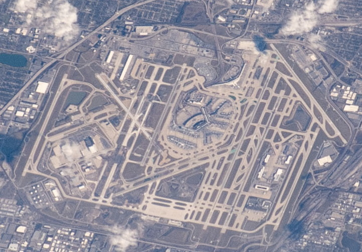 Looking at O'Hare from the SW on December 6, 2019, as seen from the International Space Station